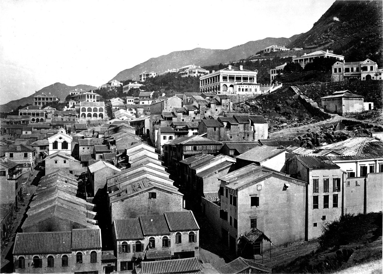 photo from Album of Hongkong Canton Macao Amoy Foochow